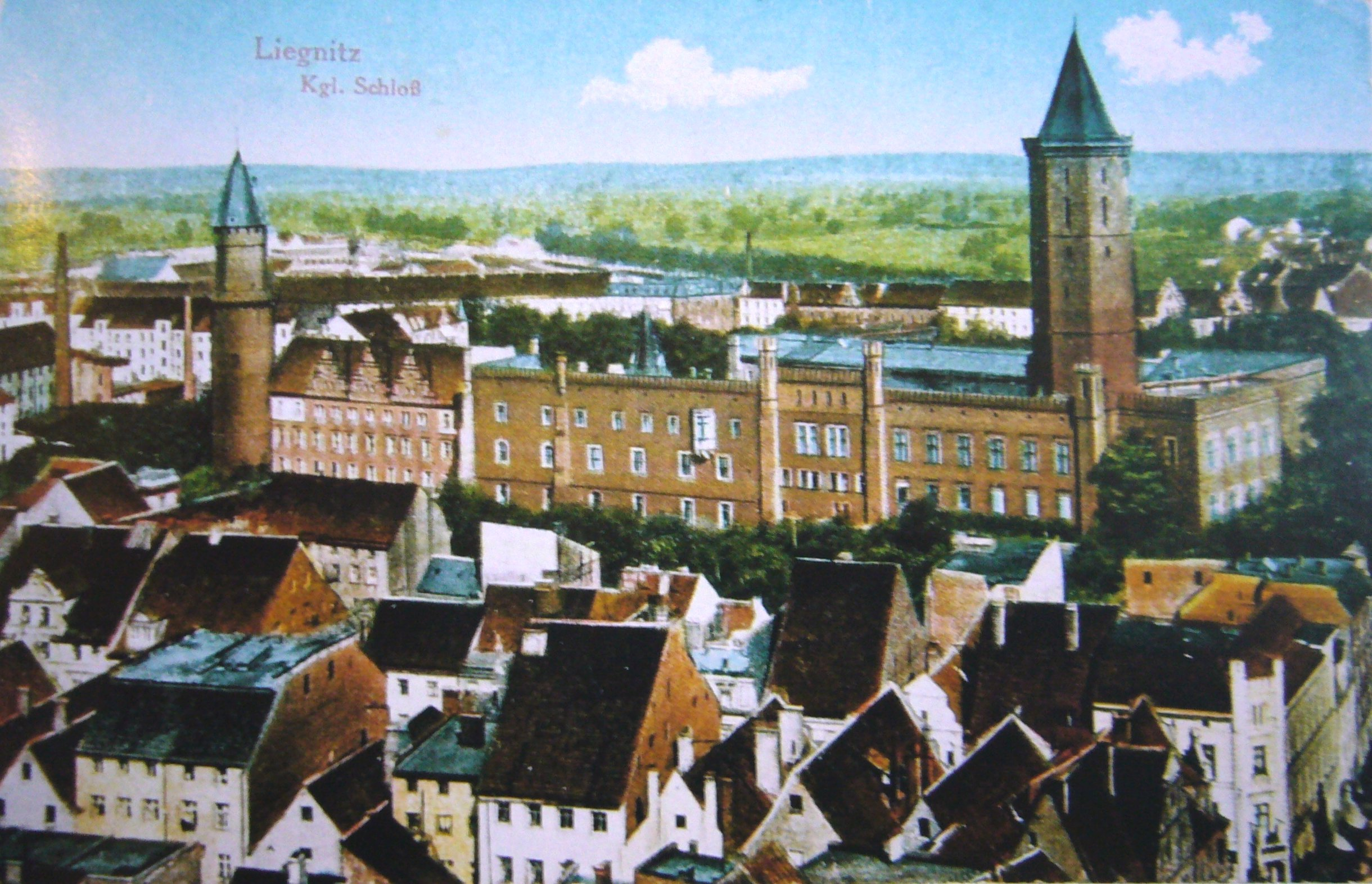 View of the castle in Legnica, 19th century